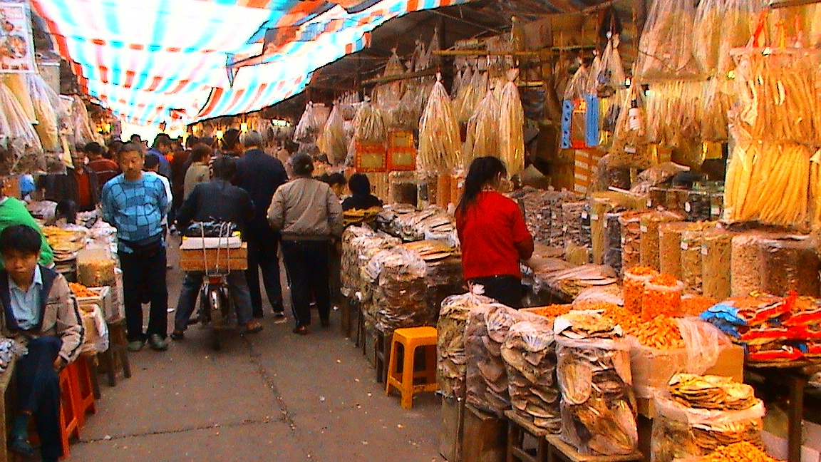 Bo'ai Road area in Haikou city, Hainan, China. The old shopping area.